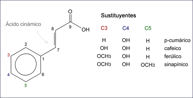 hydrxycinnamic acid